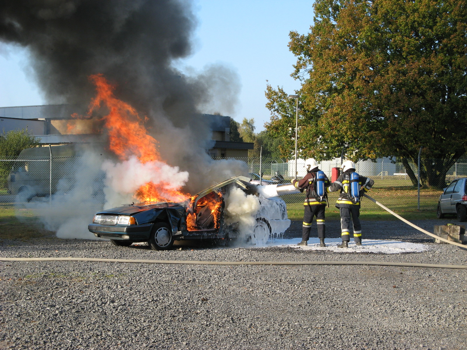 Fire training by civil Fire Dpt on Army base in Grobbendonk, Belgium